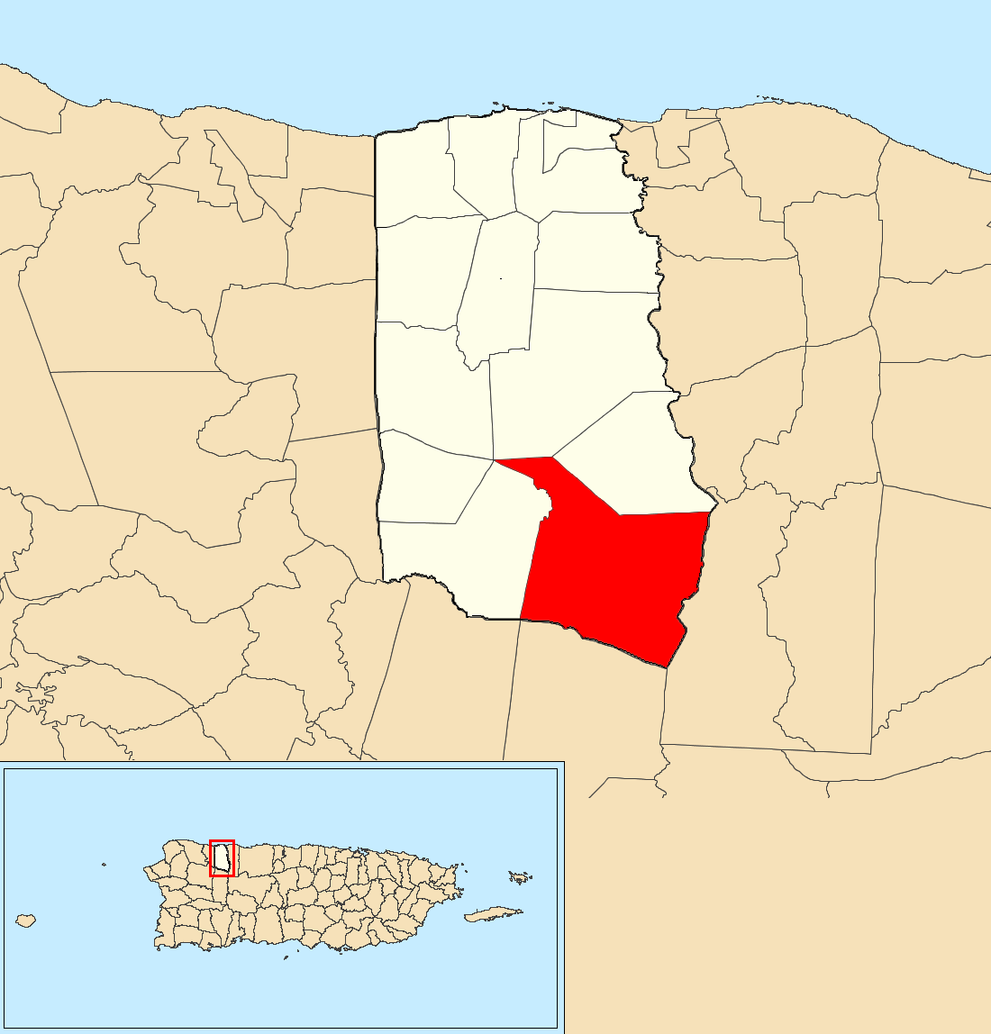 Quebrada, Camuy, Puerto Rico locator map